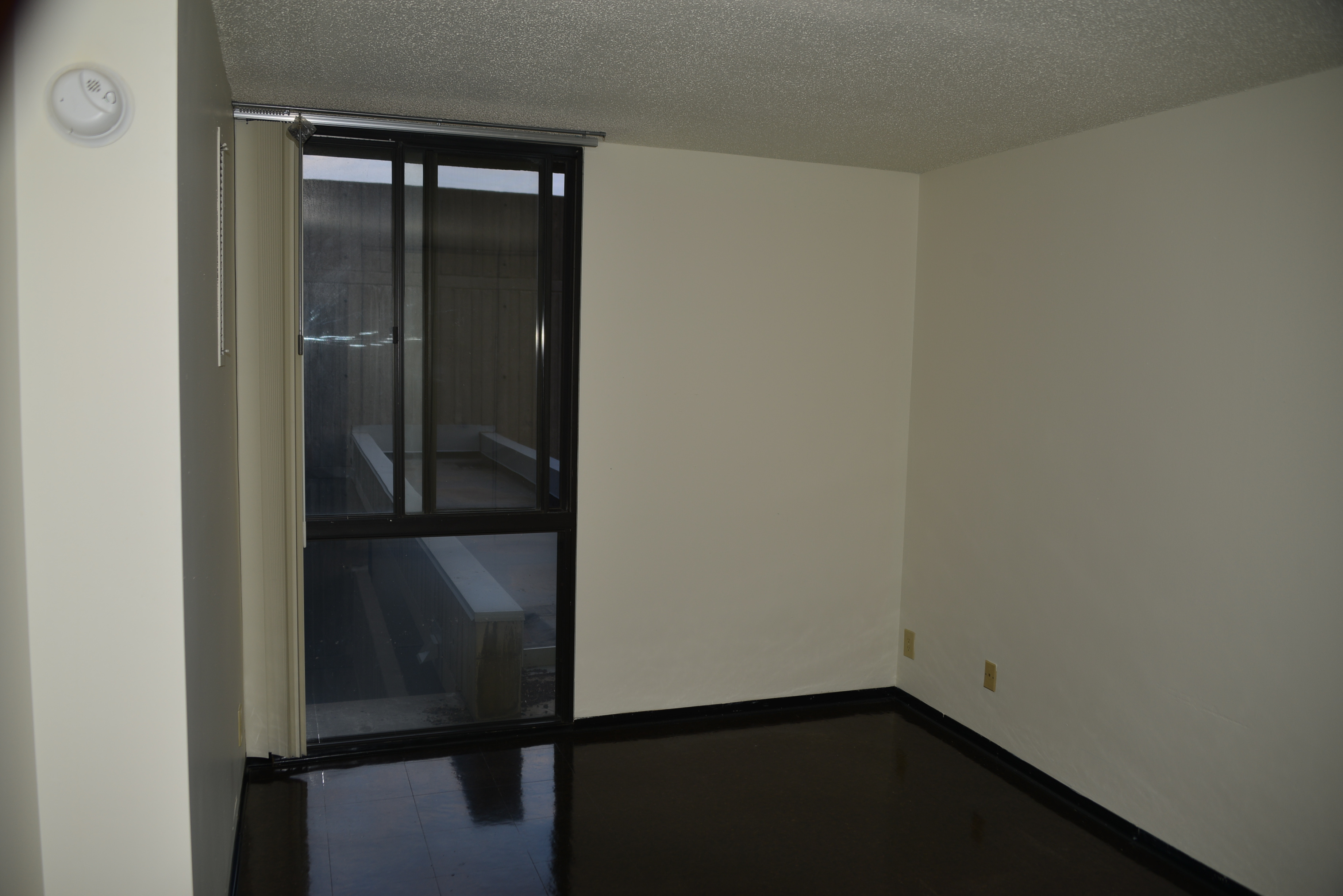 A vacant apartment inside Riverside Plaza, Minneapolis.